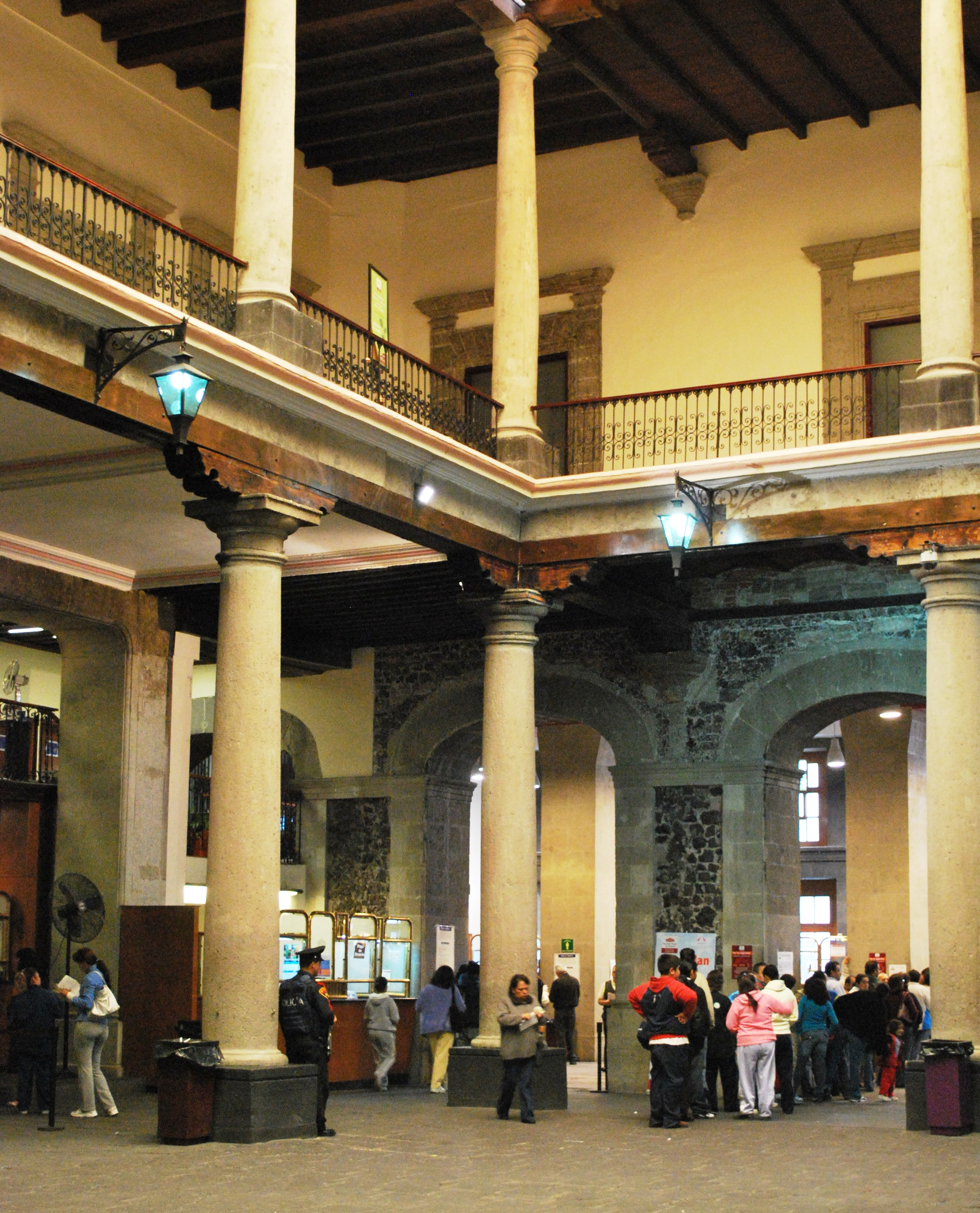 Inside of of the rooms of the National Monte de Pieded building just off the main plaza of Mexico City.